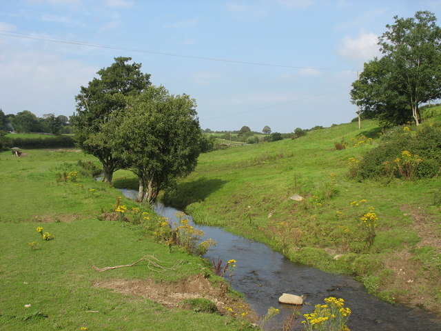 Cwm Cadnant Valley